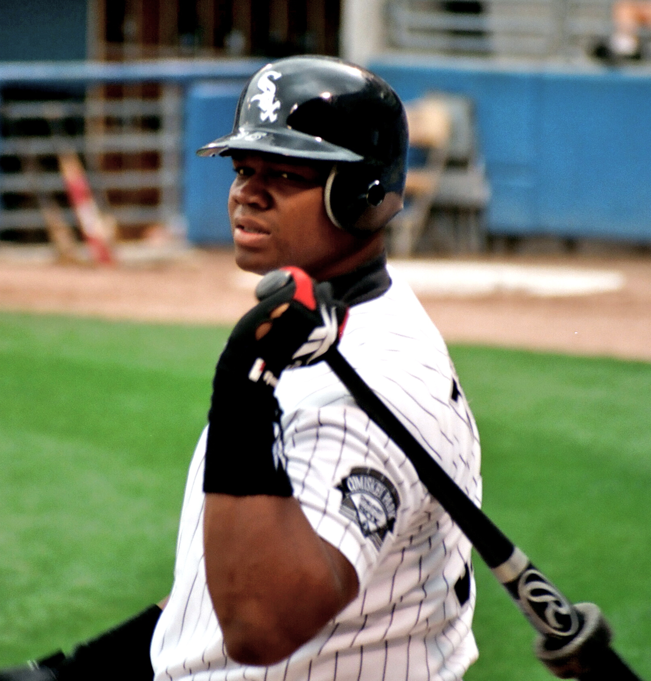 Frank Thomas at New Comiskey Park in 1997.